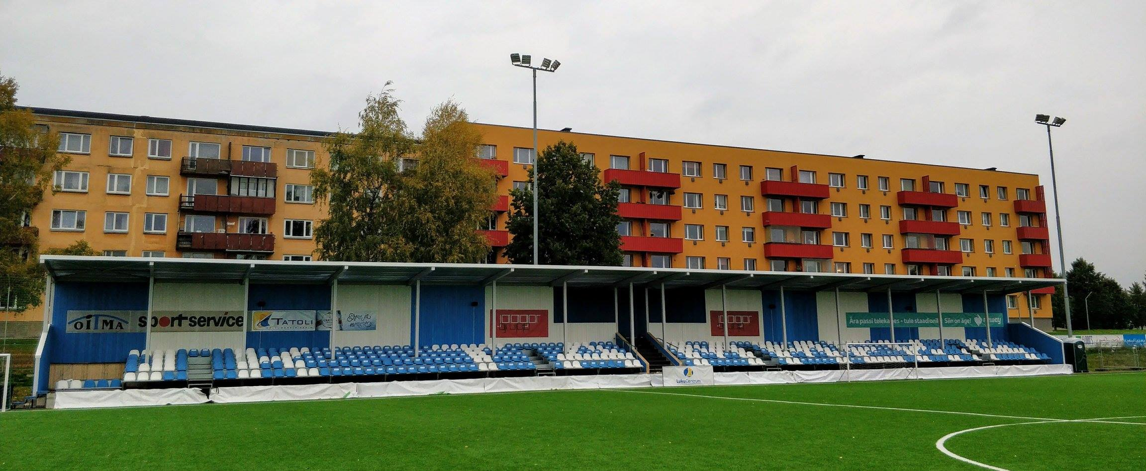 Sepa jalgpallikeskus' stand in October 2017